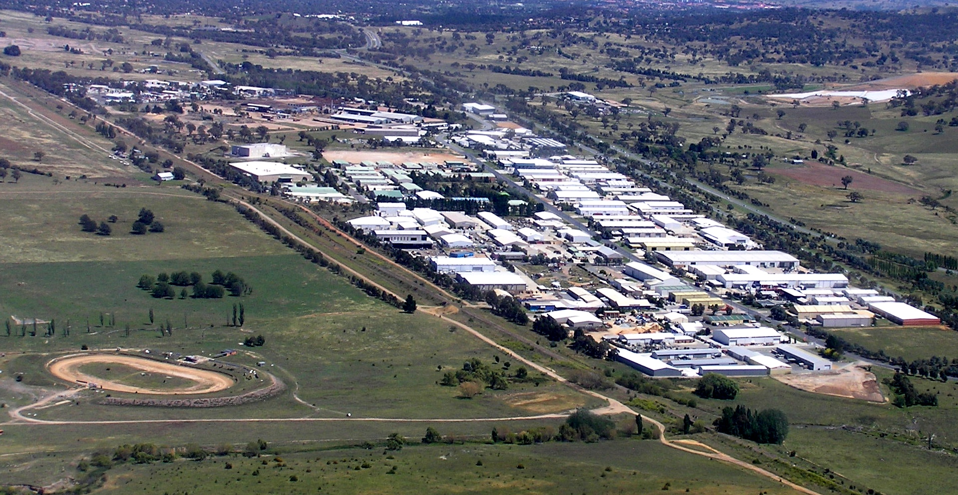 aerial photo of Hume ACT